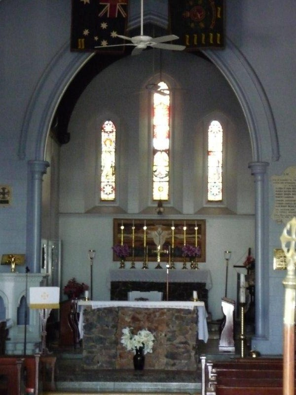 Altar of Quetta Memorial Cathedral Church, Thursday Island, 2014.jpg